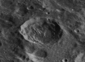 Oblique view of Bjerknes crater, on the far side of the moon, facing roughly south.